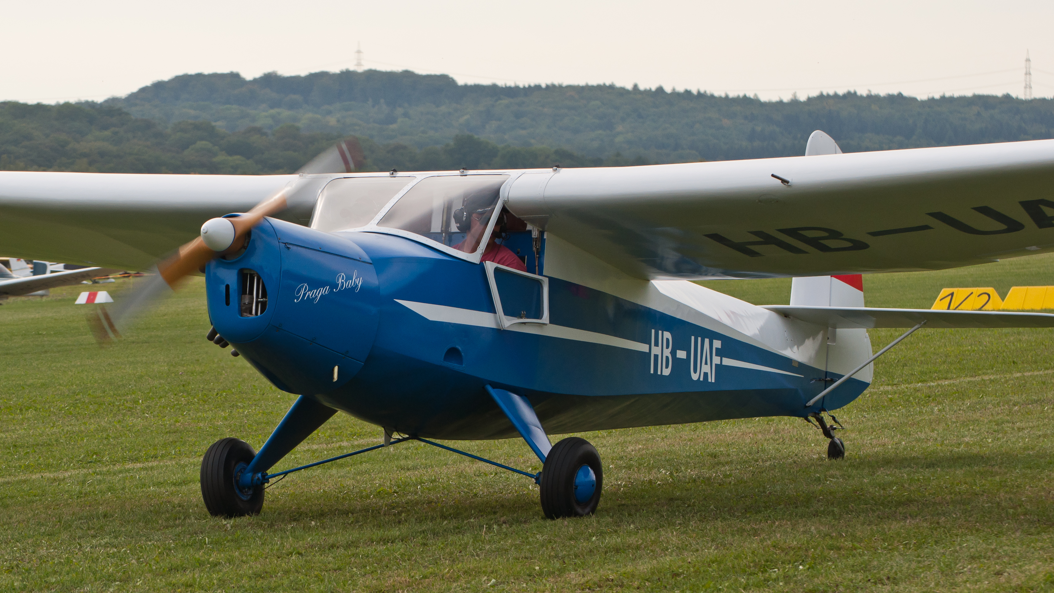 Praga E-114M Air Baby (reg. HB-UAF, cn 119, built in 1947). Engine: Walter Mikron III.